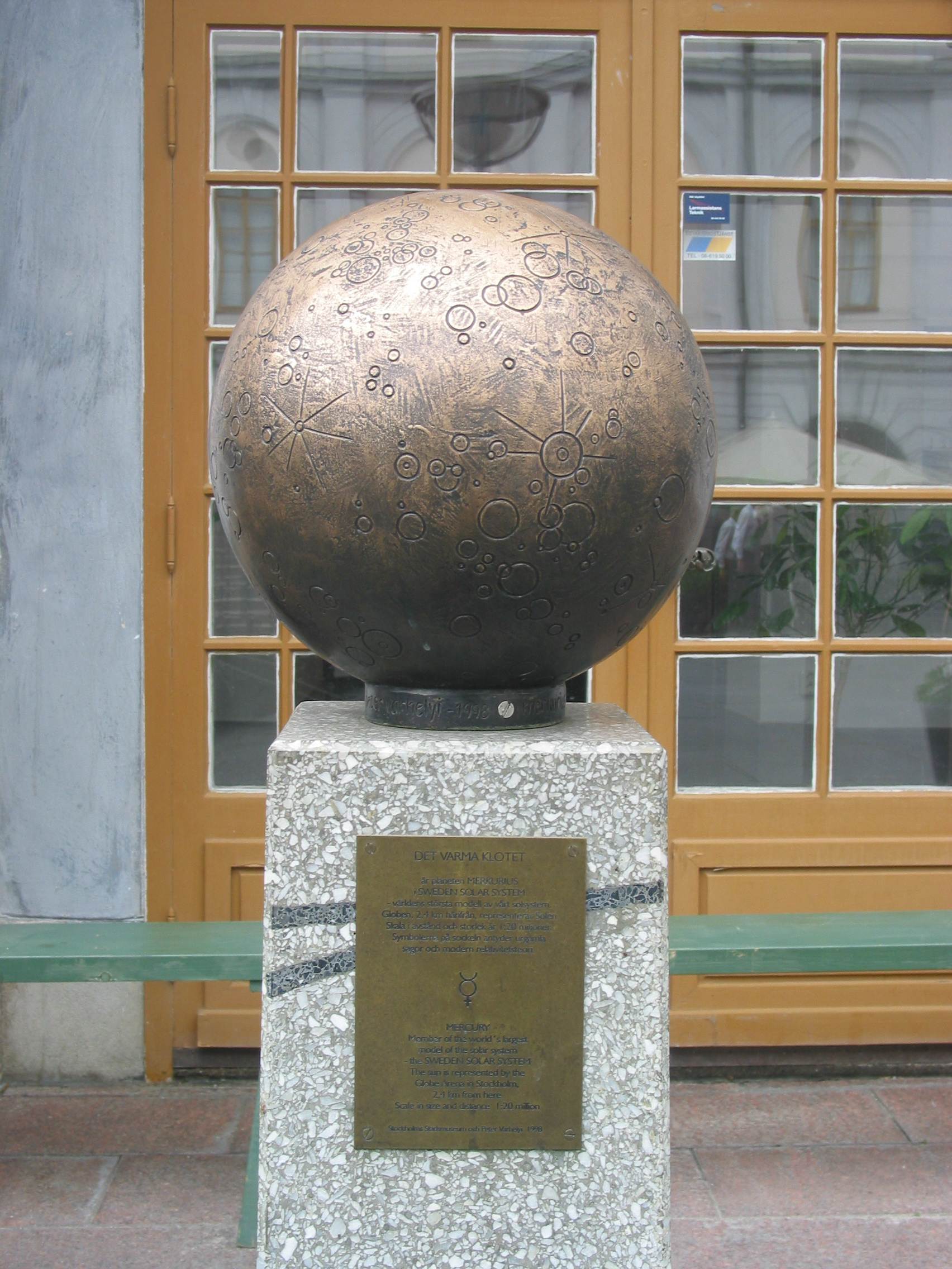 Mercury